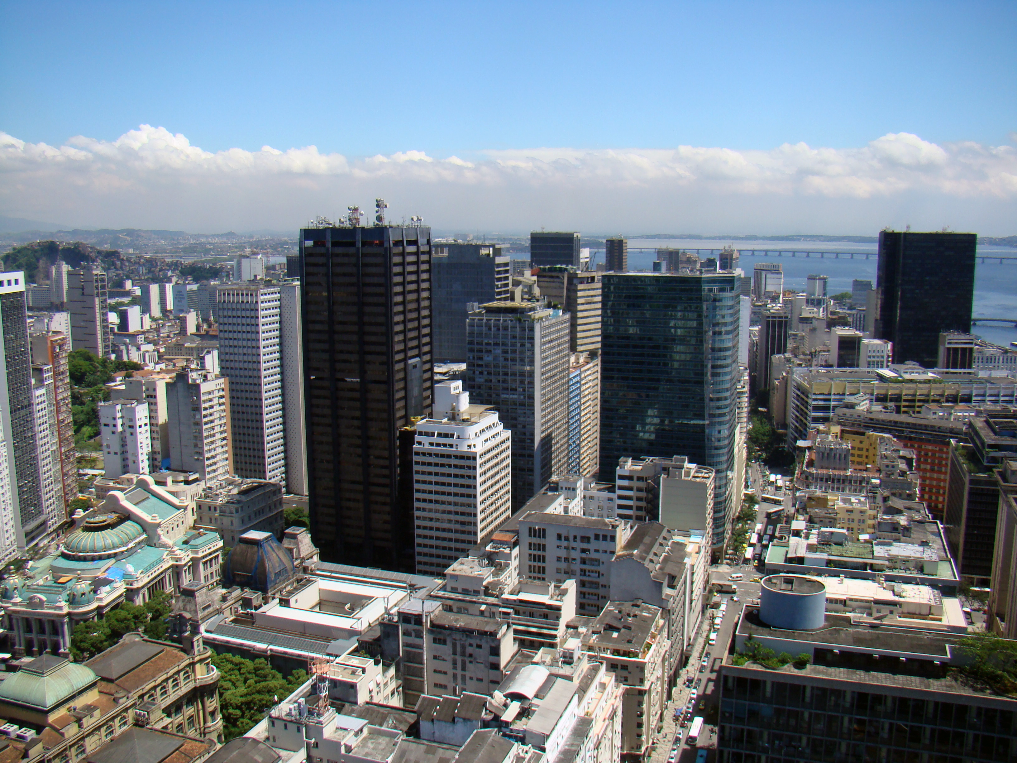 Aerial view of Rio de Janeiro city center, Rio de Janeiro, Brazil.